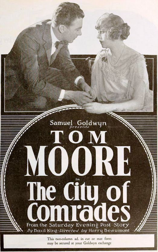 Advertisement for the American drama film The City of Comrades (1919) with Tom Moore and Seena Owen, on page 625 of the July 19, 1919 Motion Picture News.